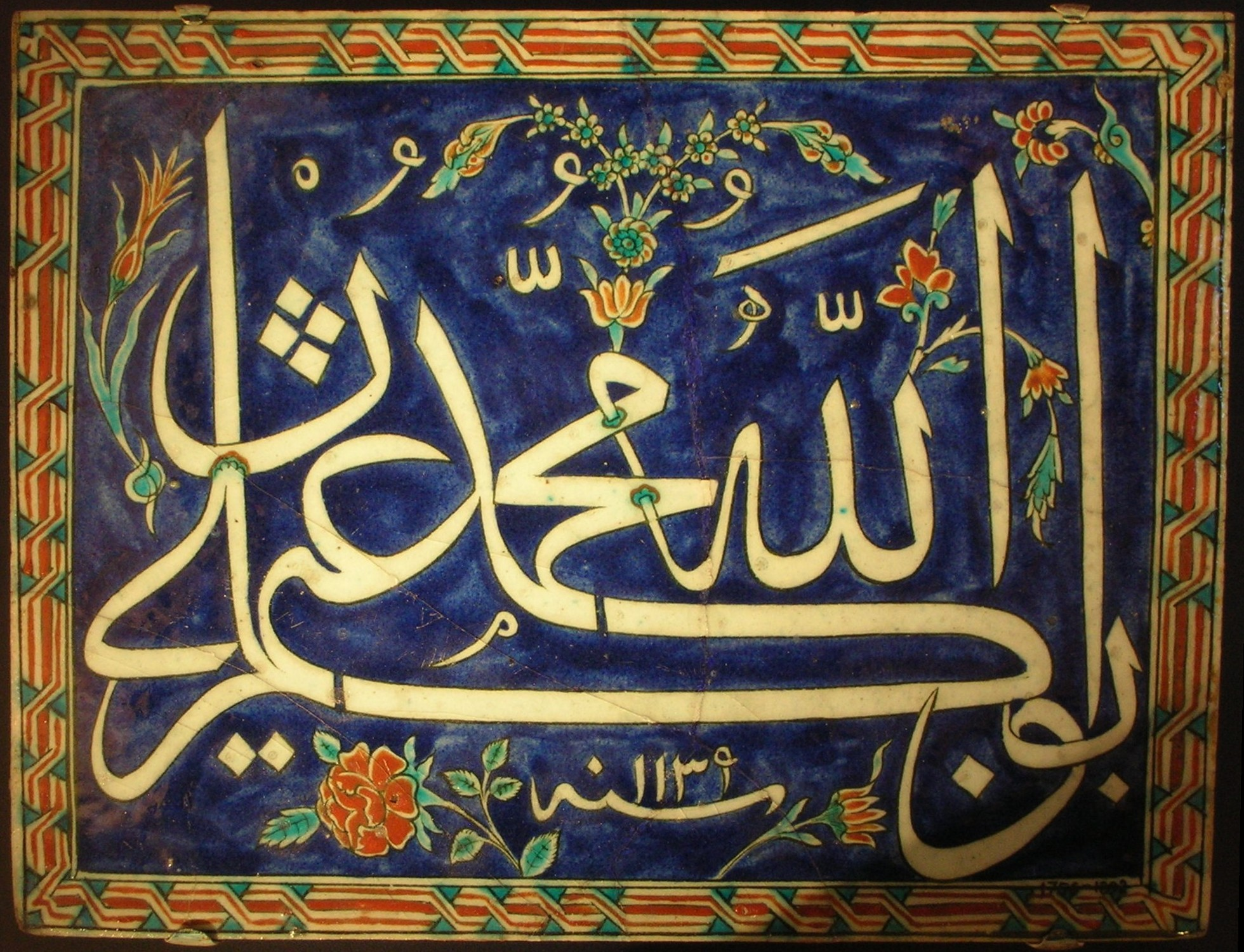 Arabic writing on a fritware tile, depicting the names of God, Muhammad and the first caliphs. Istanbul, Turkey, c. 1727. Islamic Middle East, room 42, Victoria & Albert Museum, London. Museum no. 1756-1892 [1].